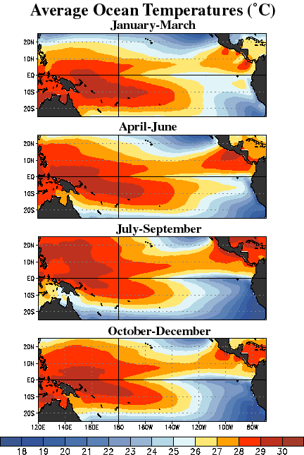 Average Pacific Ocean sea surface temperatures. The normal ENSO western Pacific warm water pool is present. The wintertime effect of mountain jets are apparent on the west side of Central America.